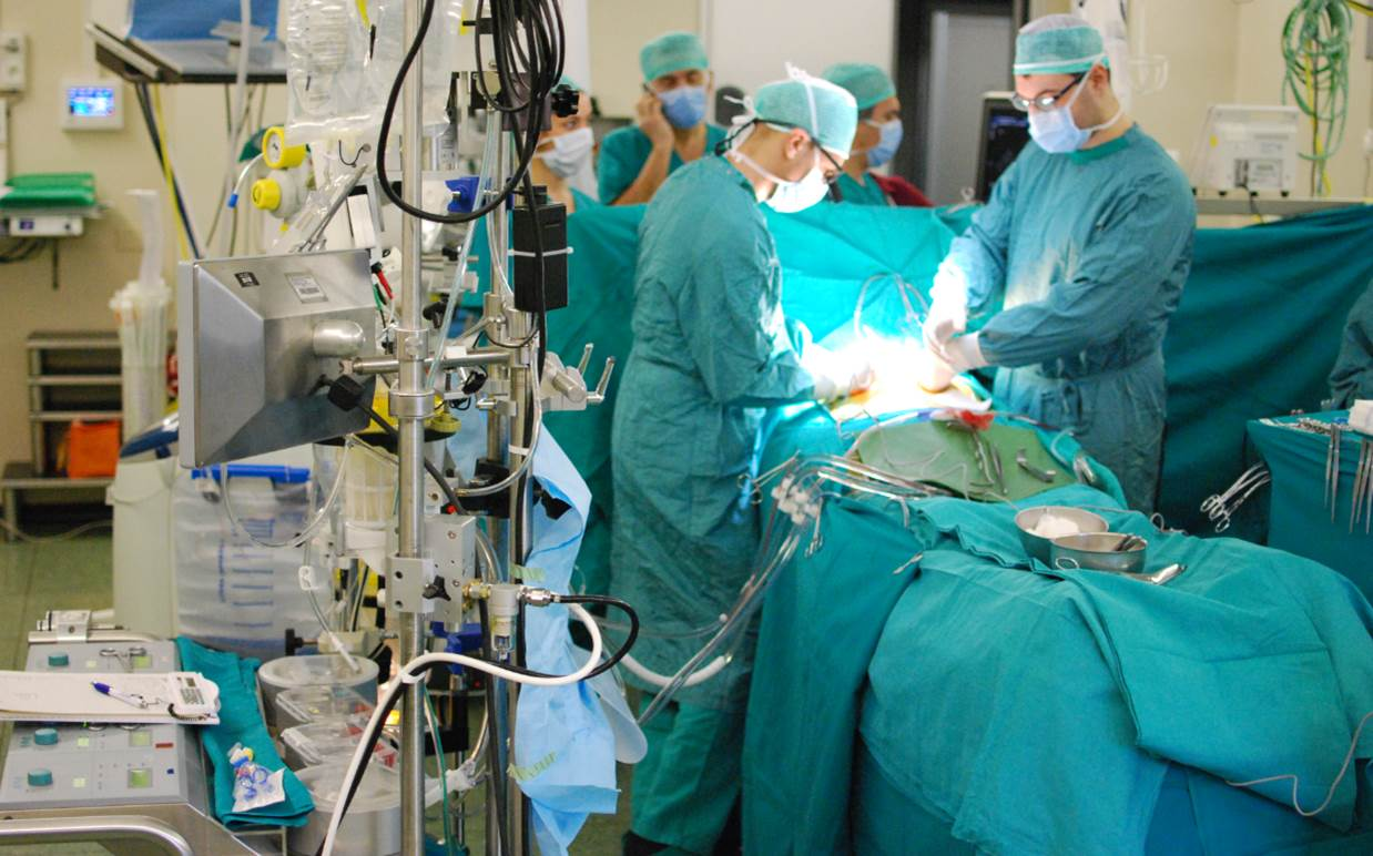 Heart lung machine connected to patient during cardiac surgical procedure